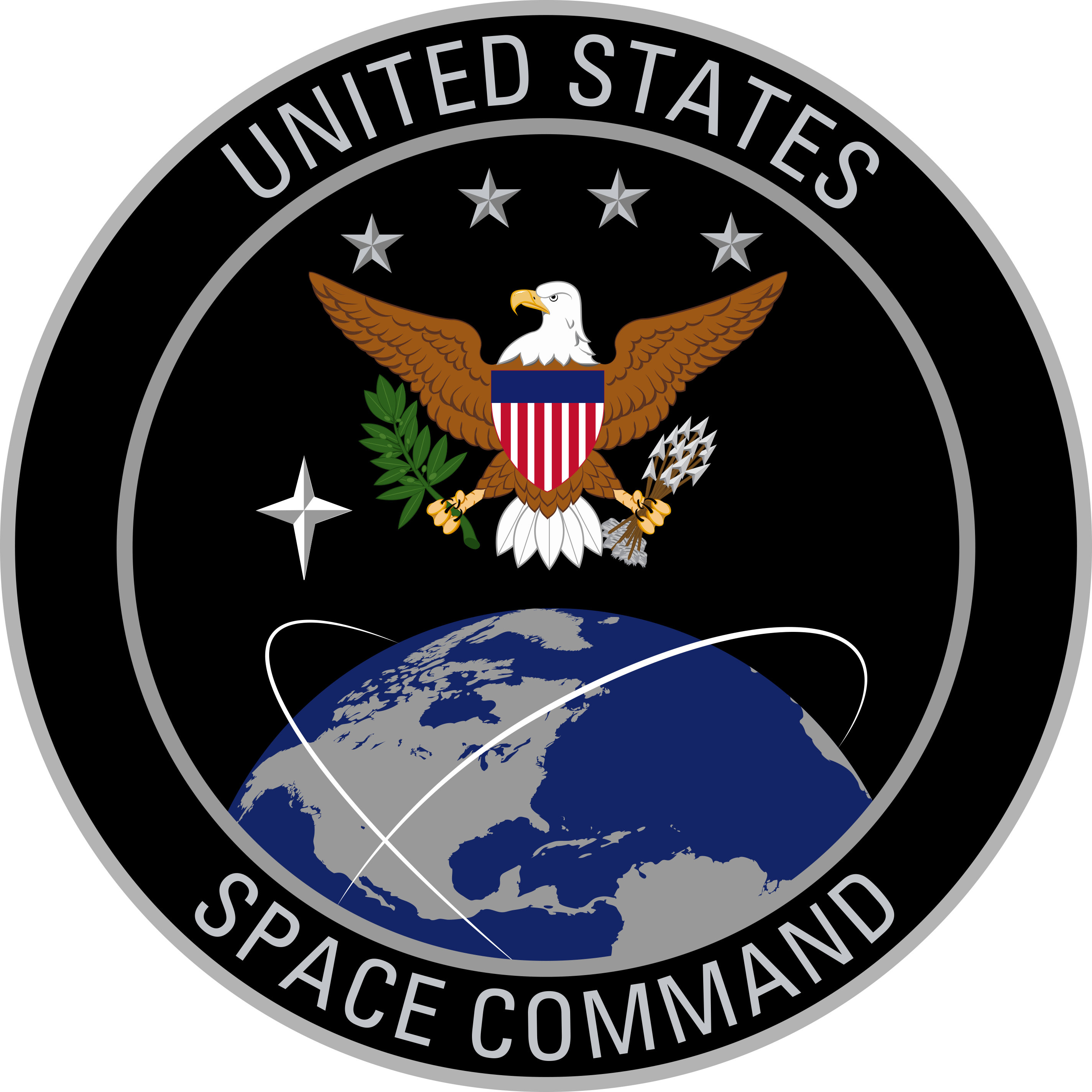 The logo of United States Space Command